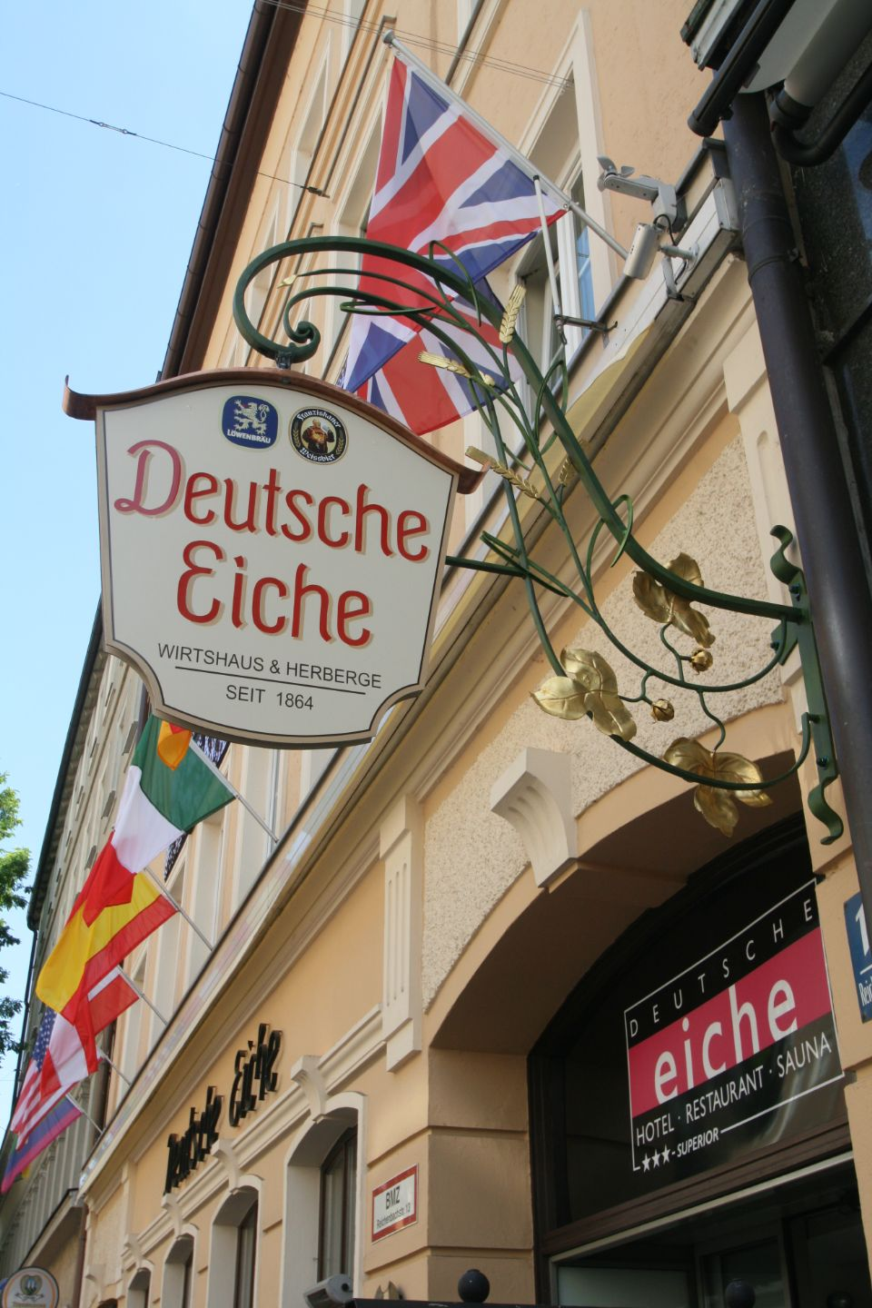 Hotel "Deutsche Eiche" ("German oak") in Munich, Germany